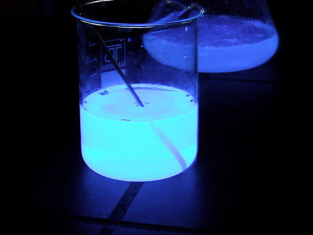 Luminol and hemoglobin. Luminol glows in an alkaline solution when you add hemoglobin and H2O2